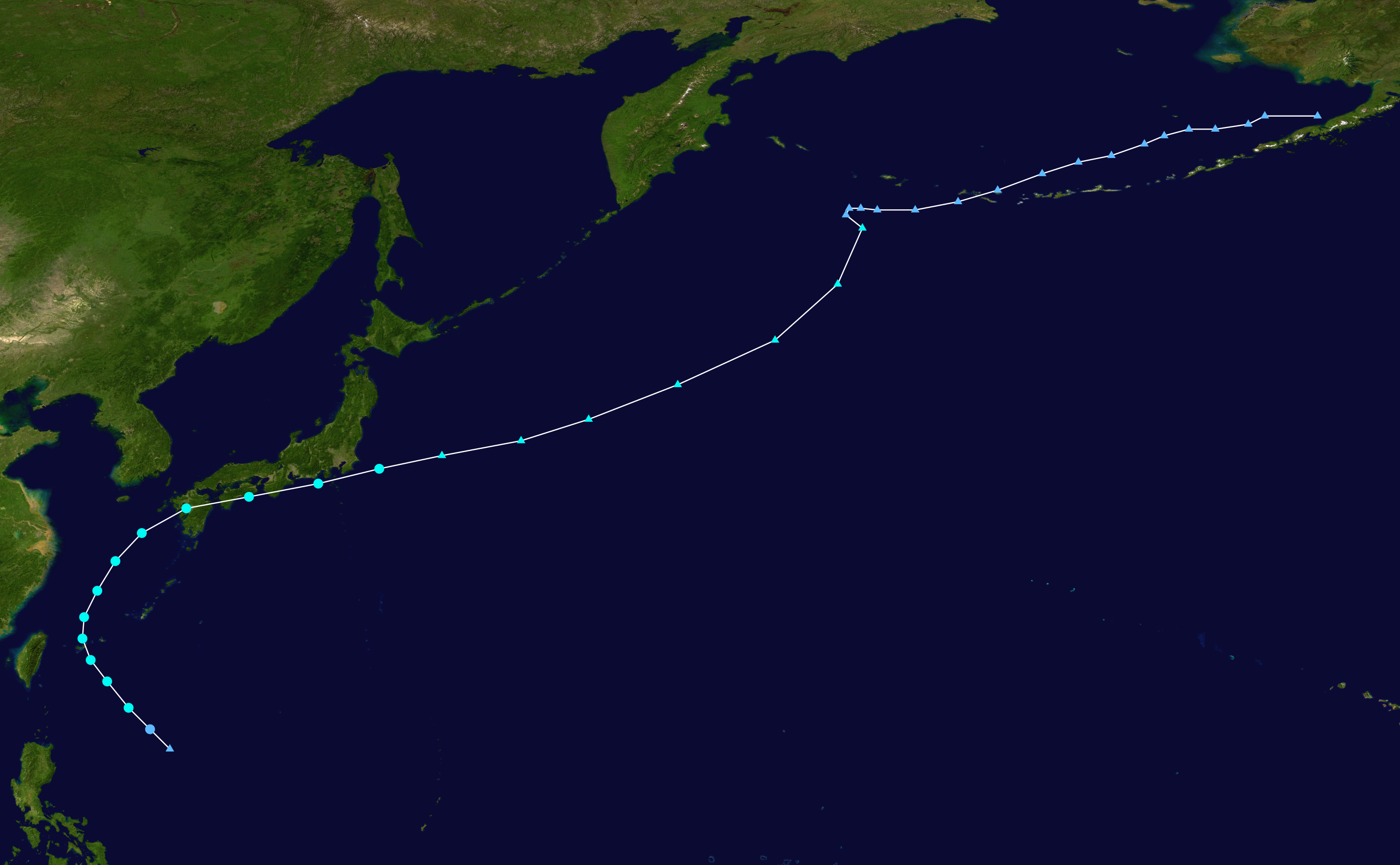 Track map of Severe Tropical Storm Nanmadol of the 2017 Pacific typhoon season. The points show the location of the storm at 6-hour intervals. The colour represents the storm's maximum sustained wind speeds as classified in the Saffir–Simpson scale (see below), and the shape of the data points represent the nature of the storm, according to the legend below. Saffir–Simpson scale Tropical depression≤38 mph≤62 km/h Category 3111–129 mph178–208 km/h Tropical storm39–73 mph63–118 km/h Category 4130–156 mph209–251 km/h Category 174–95 mph119–153 km/h Category 5≥157 mph≥252 km/h Category 296–110 mph154–177 km/h Unknown Storm type Tropical cyclone Subtropical cyclone Extratropical cyclone / Remnant low / Tropical disturbance / Monsoon depression